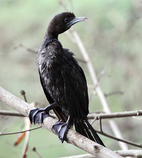 Little Cormorant Little Cormorant (Microcarbo Niger) in Vasai, Maharashtra, India.